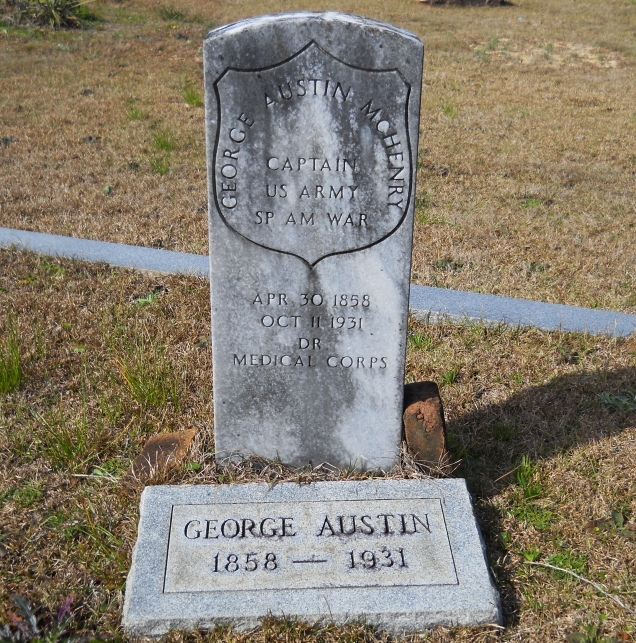 Headstone for George Austin McHenry (1858-1931), Oak Lawn Cemetery, McHenry, Mississippi, USA.